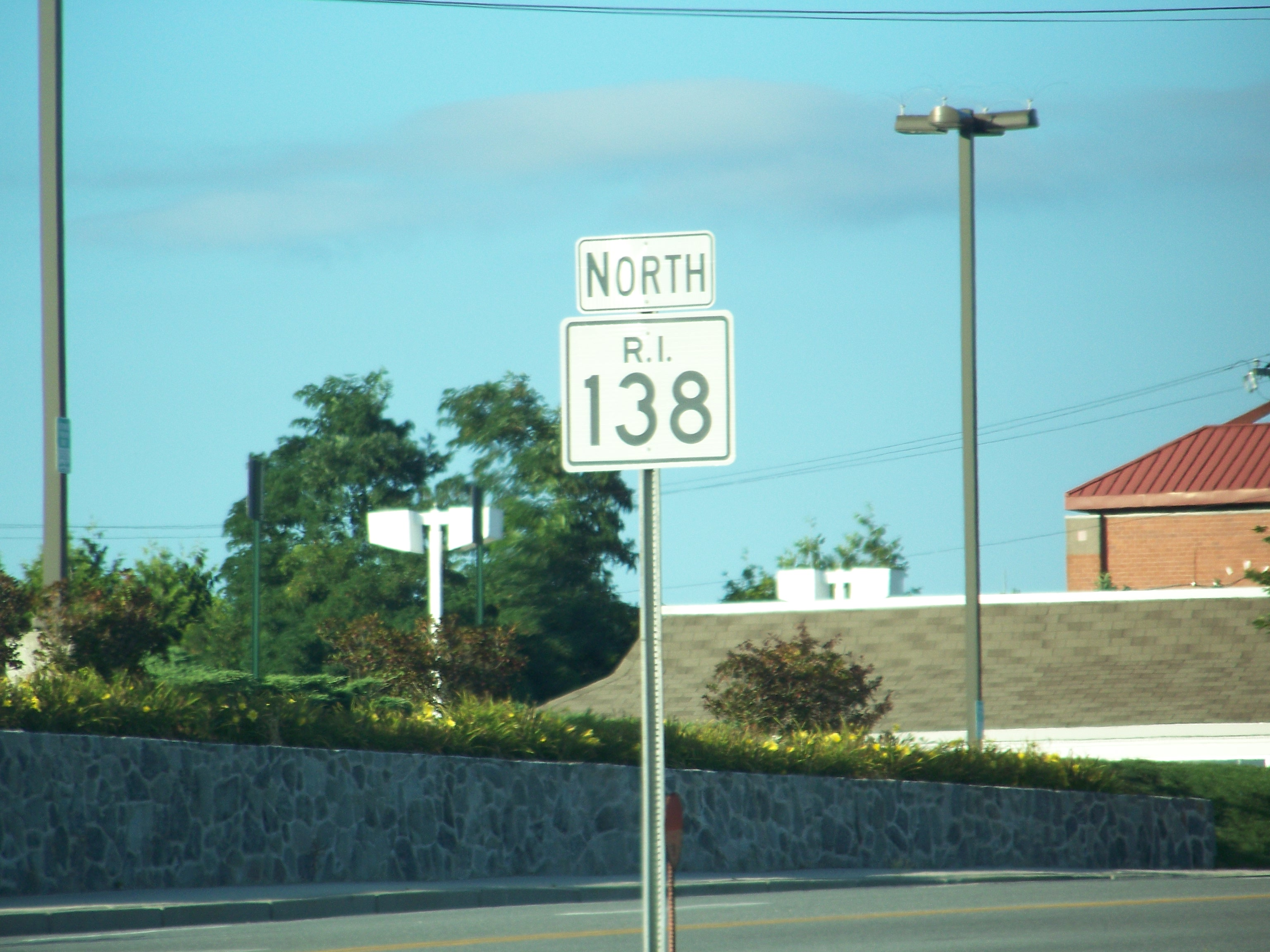 North on Rhode Island Route 138 in Newport County, Rhode Island